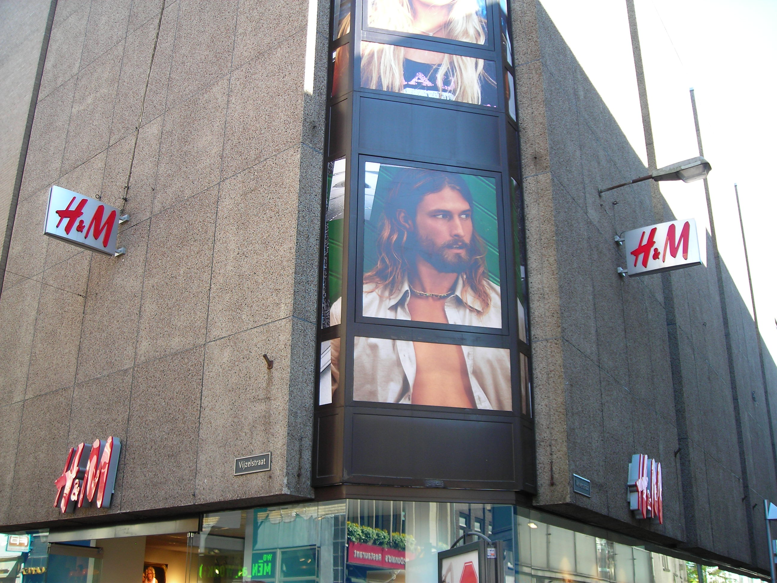 An H&M store in Arnhem